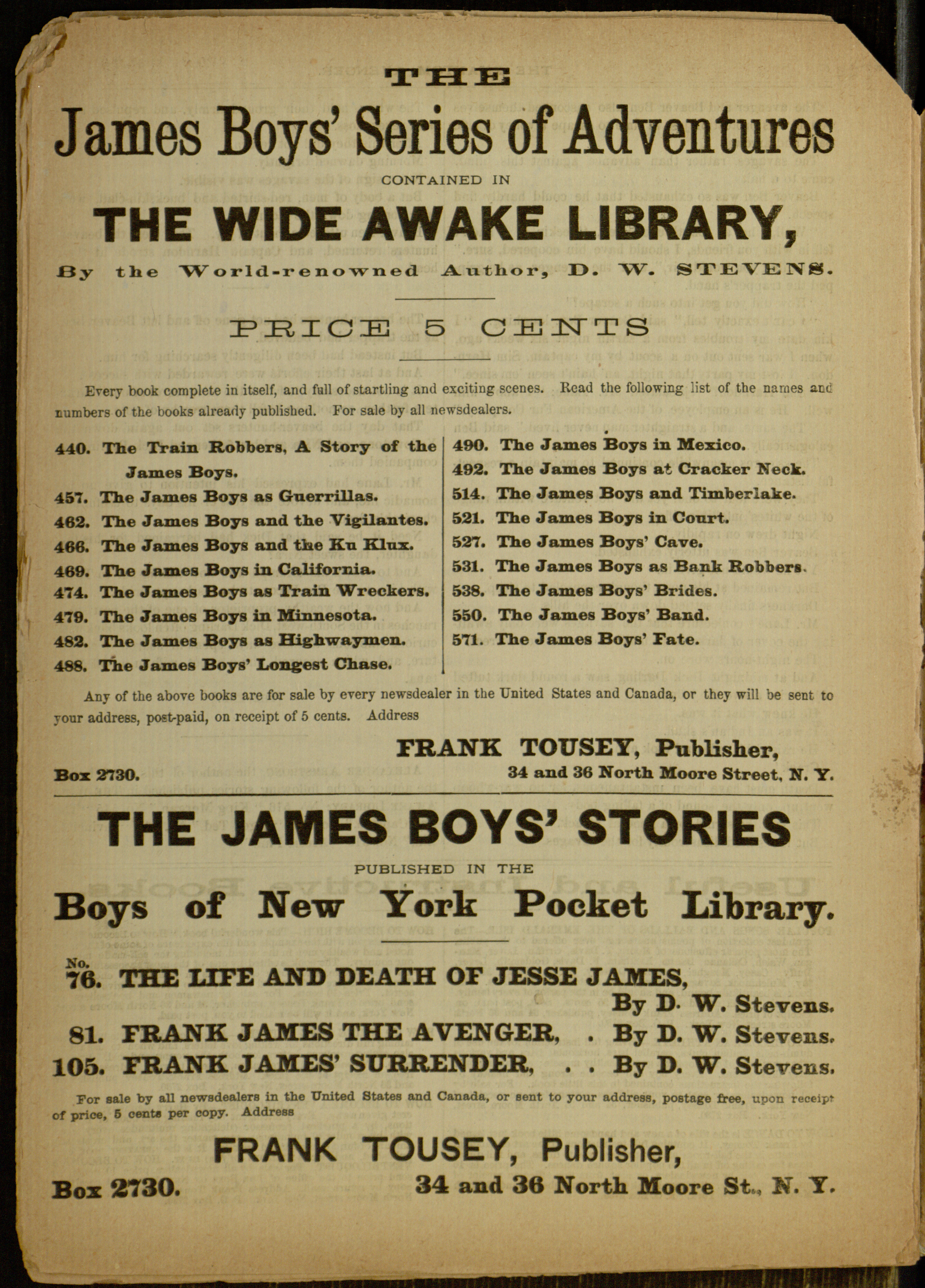 Page from Frank Tousey's "Wide Awake Library", v.1, no.587, listing "The James Boys' Series of Adventures"